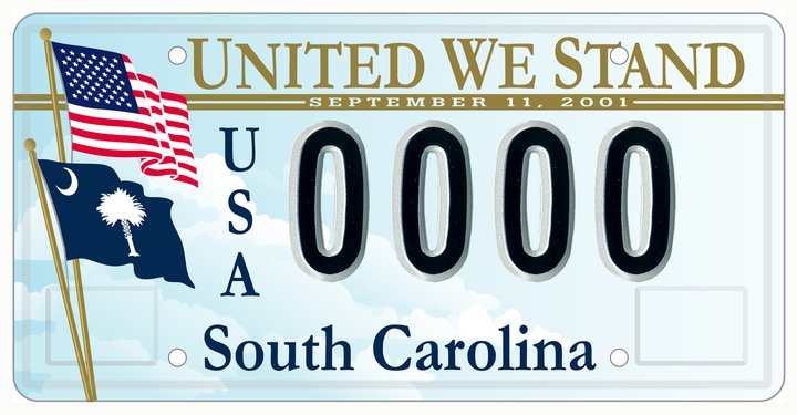 'United We Stand' license plate designed by Troy Wingard for the South Carolina Department of Public Safety in 2002